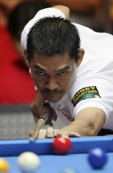 picture taken by User:Exec8 as one of the audience in the 2006 WPC in PICC, Philippines.